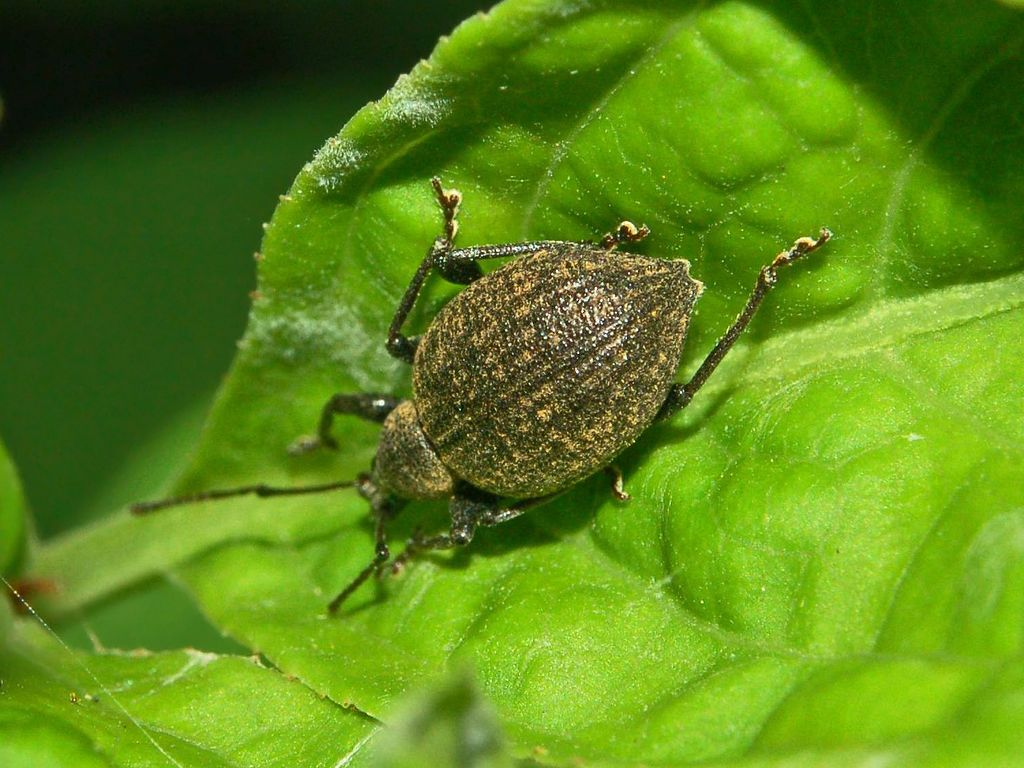 Otiorhynchus pseudonothus (cfr.)